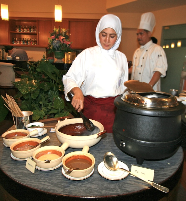 Ambuyat is a Bruneian dish derived from the interior trunk of the sago palm. It is a starchy bland substance, similar to tapioca starch.